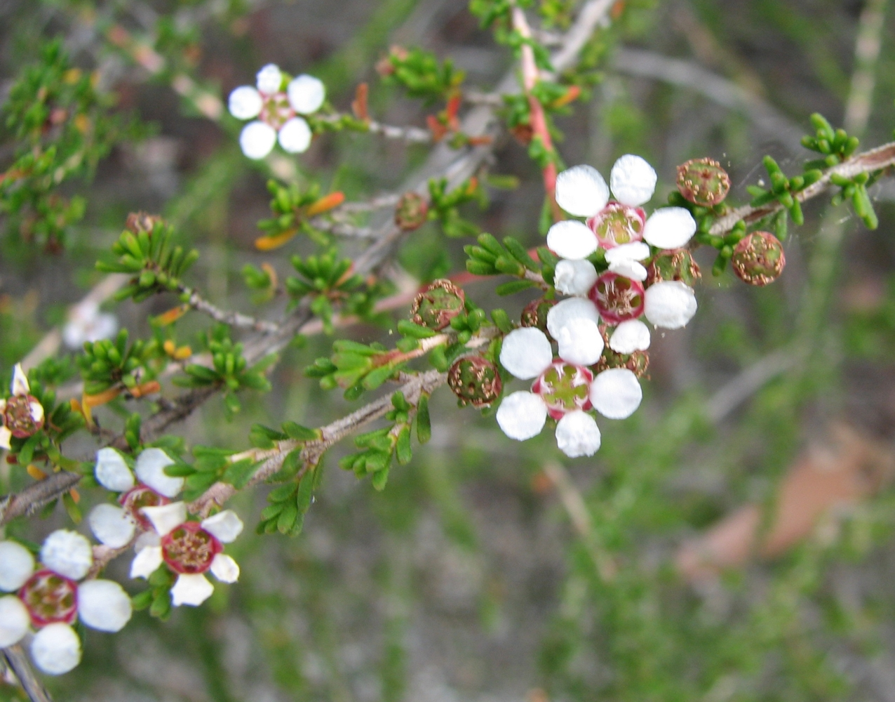 Cyathostemon heterantherus (syn. Astartea heteranthera) (cultivated, labelled) Maranoa Gardens, Balwyn, Victoria, Australia